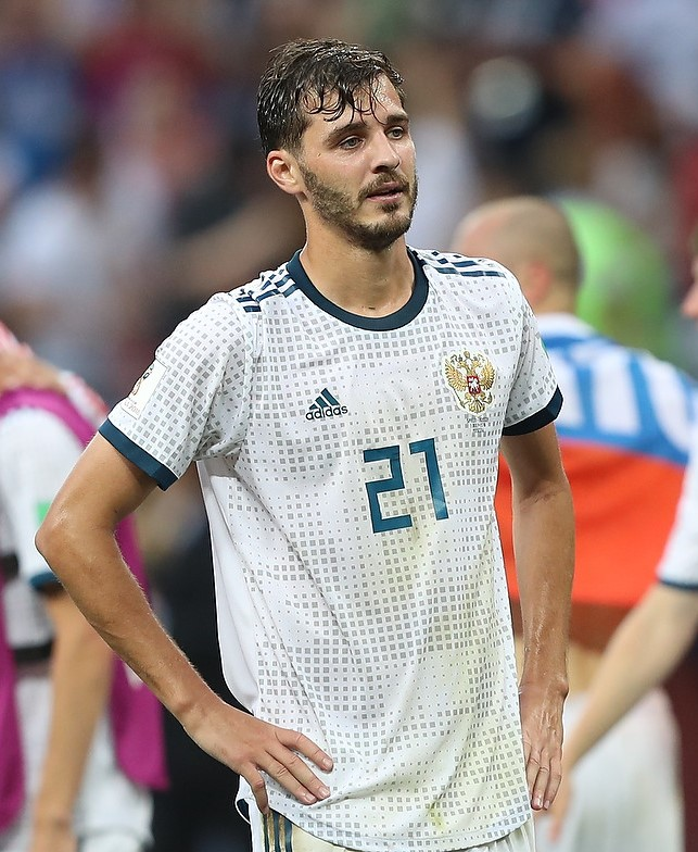 Aleksandr Yerokhin